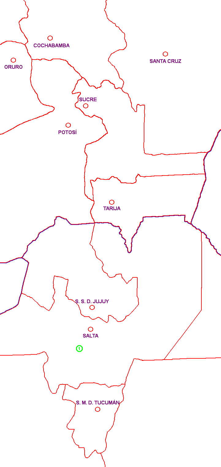 Distribution of Rebutia grandiflora